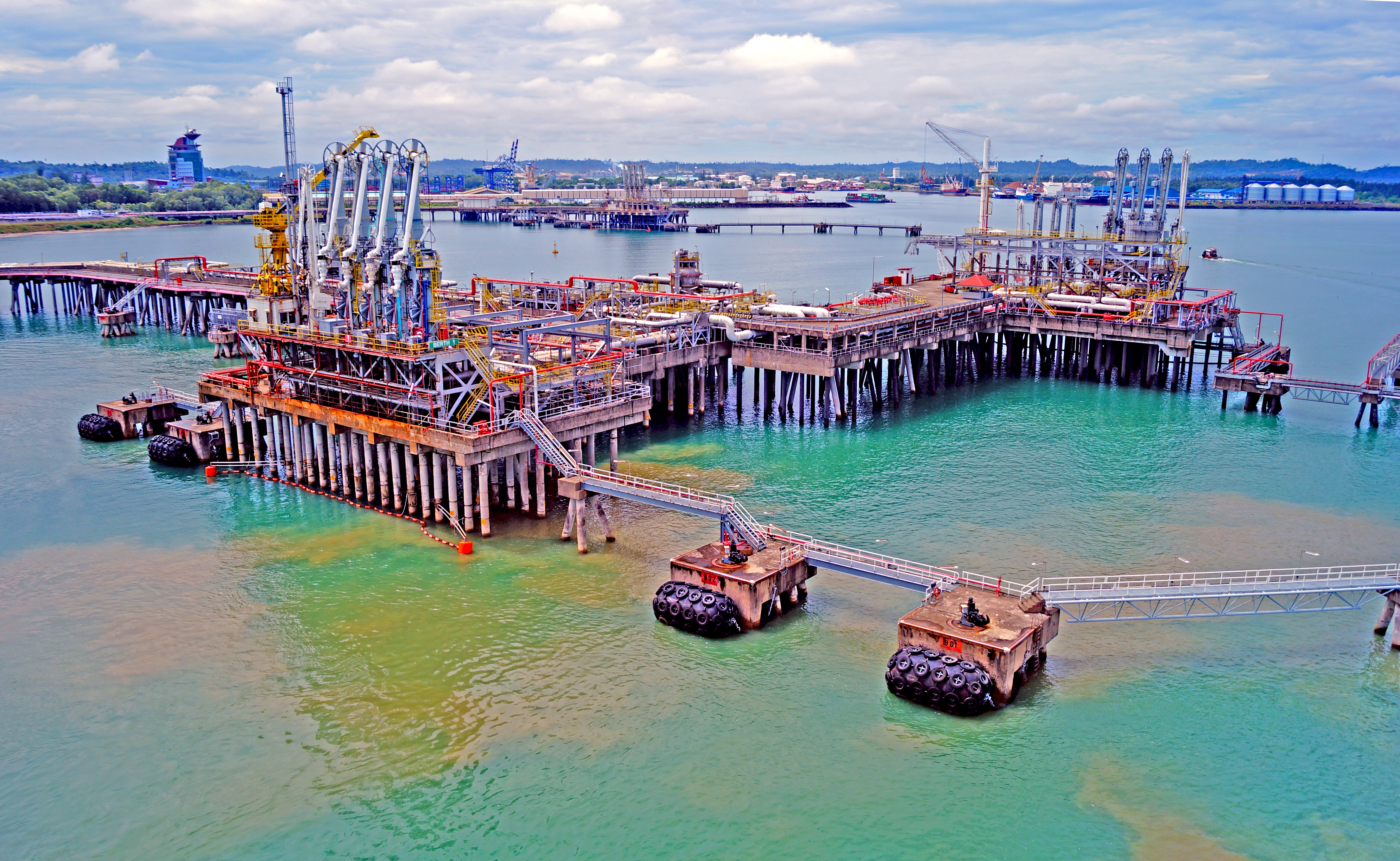 Several Marine loading arms at Bintulu LNG port, Sarawak, Malaysia. It is the place where tankships are hooked up while liquid and gaseous chemicals are transferred from the tankships to the port.